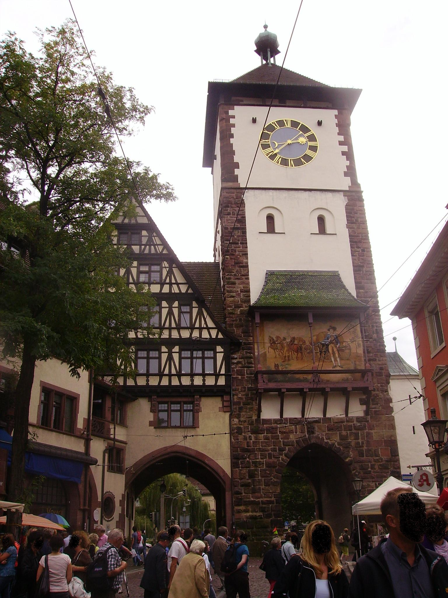 Swabian Gate, Freiburg im Breisgau